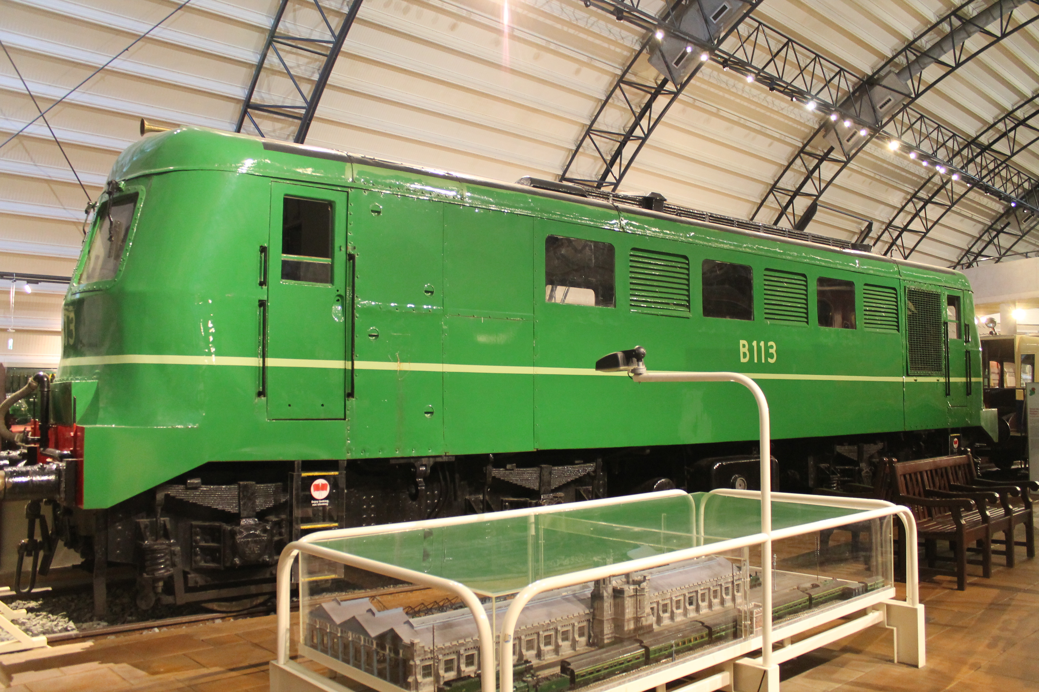 B113 at the UFTM. 30/12/2014